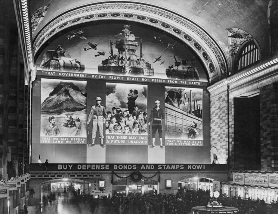 New York, New York. Photo mural to promote the sales of defense bonds, designed by Farm Security Administration, in concourse of Grand Central terminal concourse]